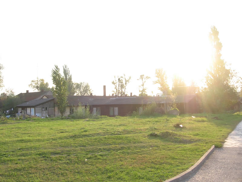 Depresija quarter in Novi Sad, Serbia.